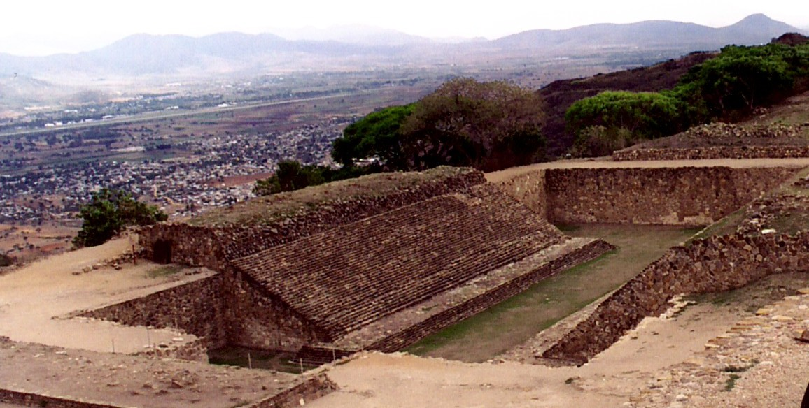 Views from Monte Alban, the white mountain, above Oaxaca